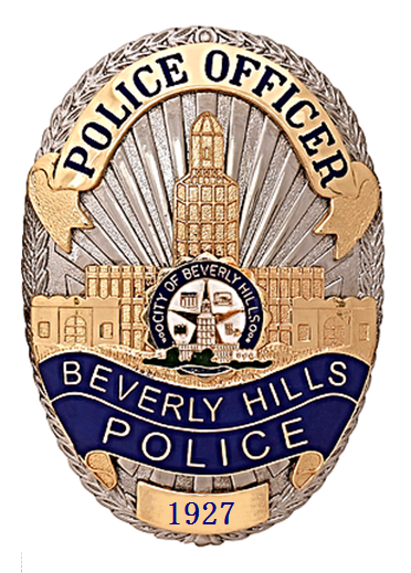 BHPD New Badge-2015